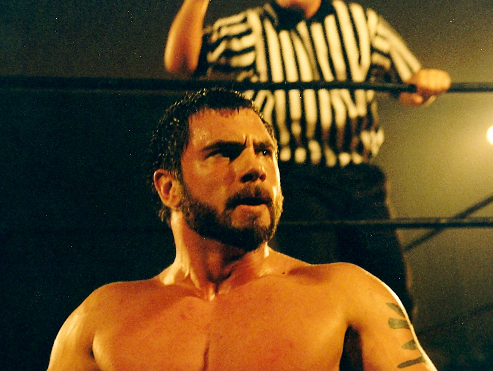 Professional wrestler Austin Aries (real name Dan Solwood) at a wrestling event on November 26, 2007.